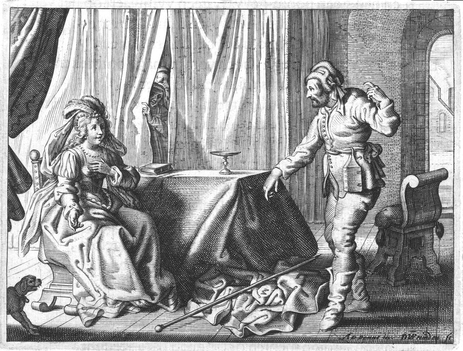 Engraving depicting the Greek philosophers Hipparchia of Maroneia and Crates of Thebes. From the book Proefsteen van de Trou-ringh (Touchstone of the Wedding Ring) written by Jacob Cats. Hipparchia and Crates are depicted wearing 17th-century clothing. In the scene depicted, Crates is trying to dissuade Hipparchia from her affections for him by pointing to his head to show how ugly he is. Hipparchia's parents can be seen peeking behind the curtain.